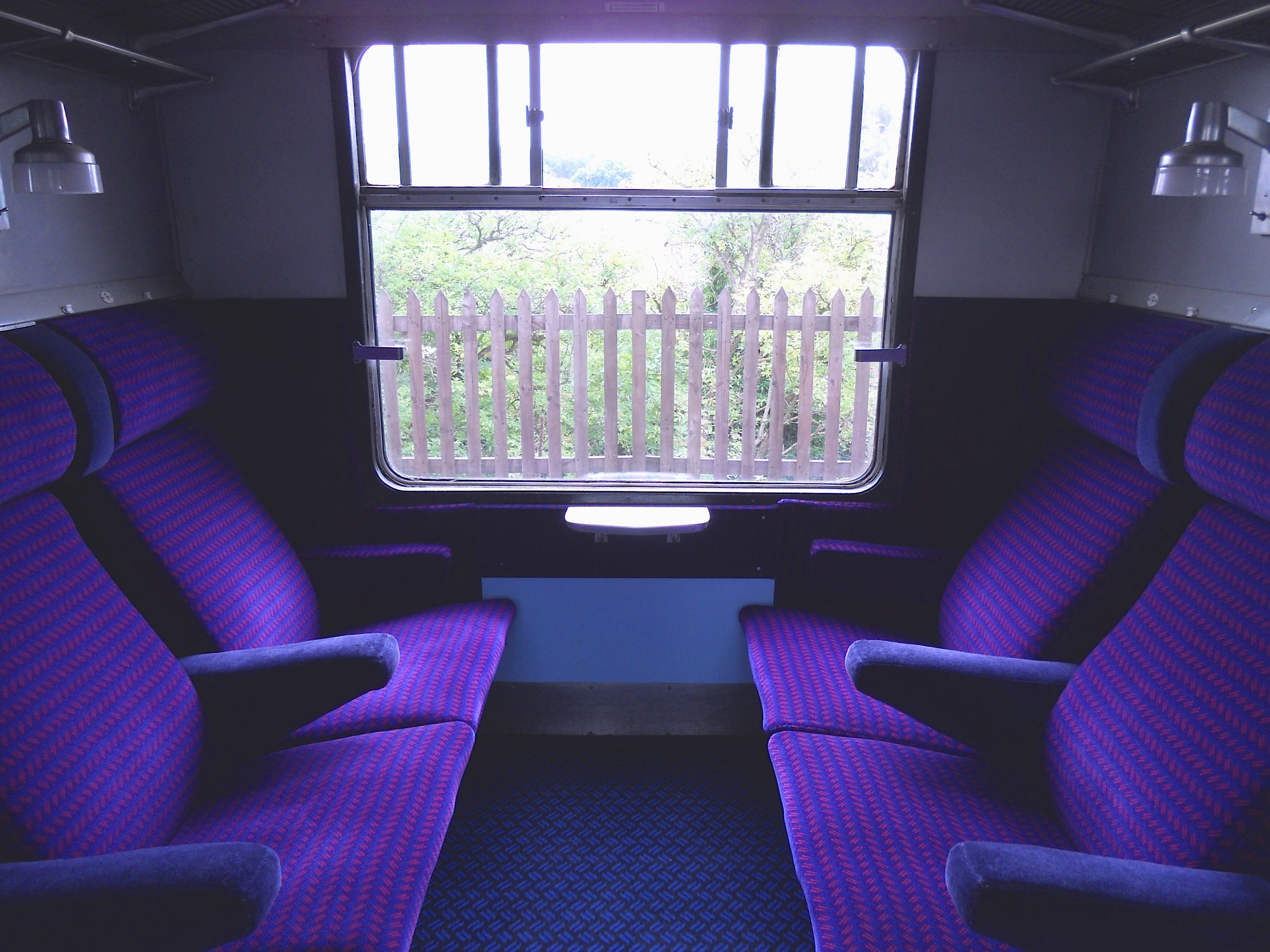 The interior of First Class cabin aboard a British Rail CIG Class 421